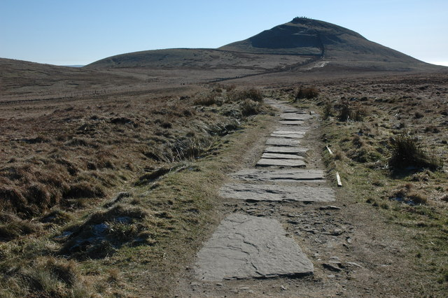 Shutlingsloe Shutlingsloe viewed from the footpath as it approaches from the north. On a sunny winter's day the summit is a popular place to be.